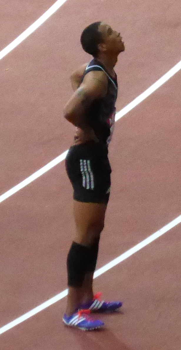 Aleec Harris at the 2015 Meeting Areva, Stade de France, Paris.